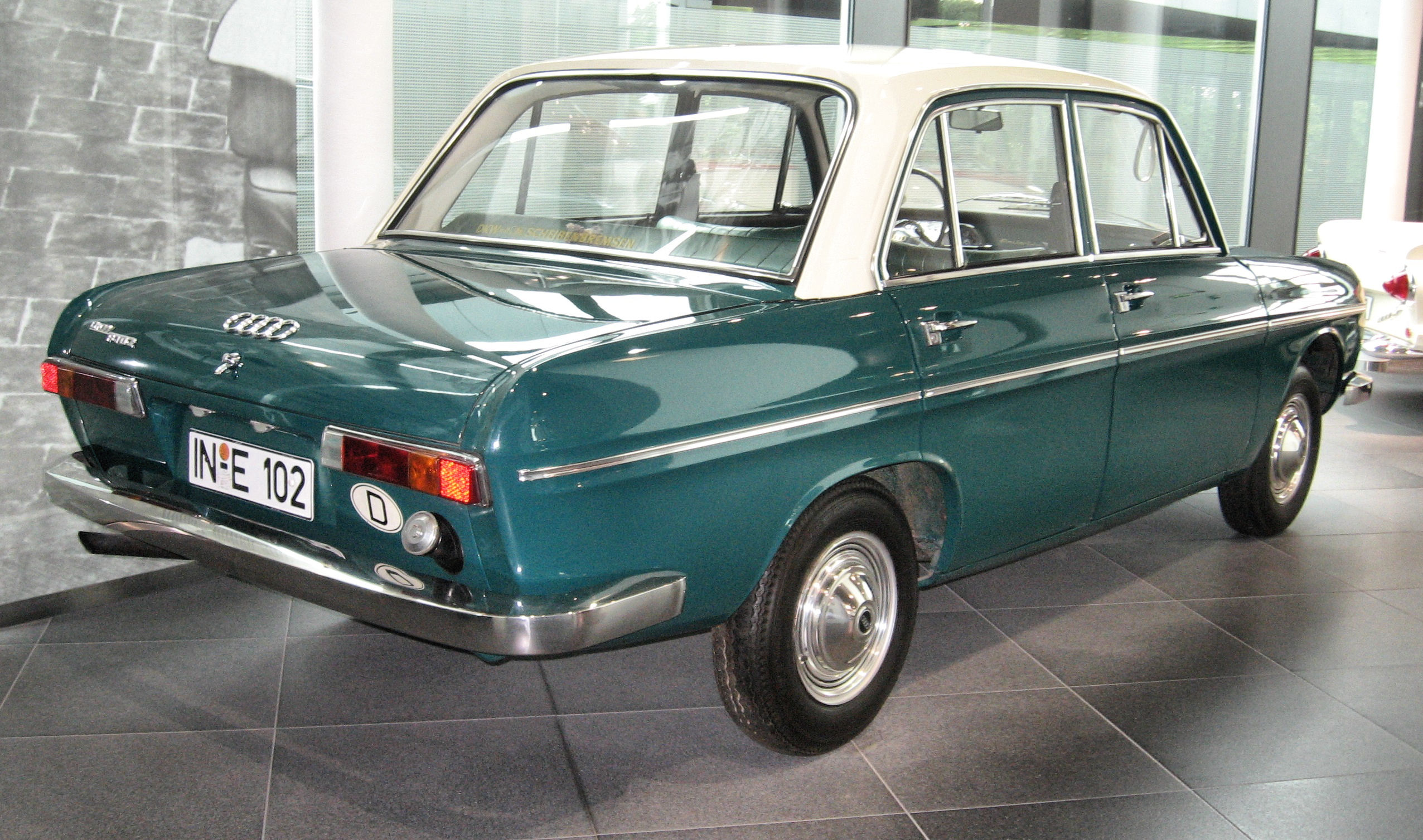 Subject: DKW F102 Author: Luc106 Date: June 13th, 2011 Place/Country: August Horch Museum, Zwickau (Deutschland) I release all rights in the public domain. Licensing